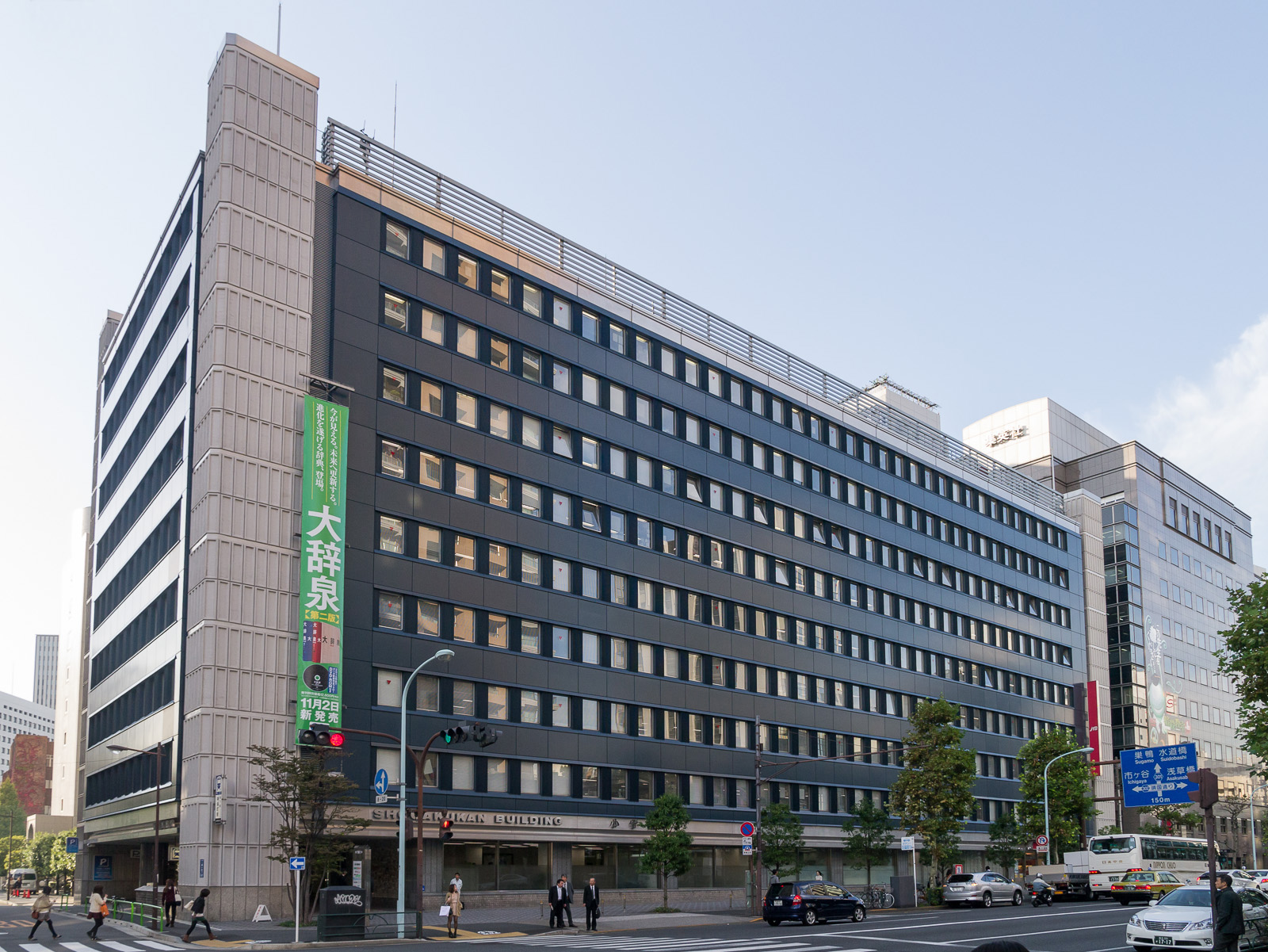 Shogakukan Building - Hitotsubashi 2-Chome, Chiyoda, Tokyo